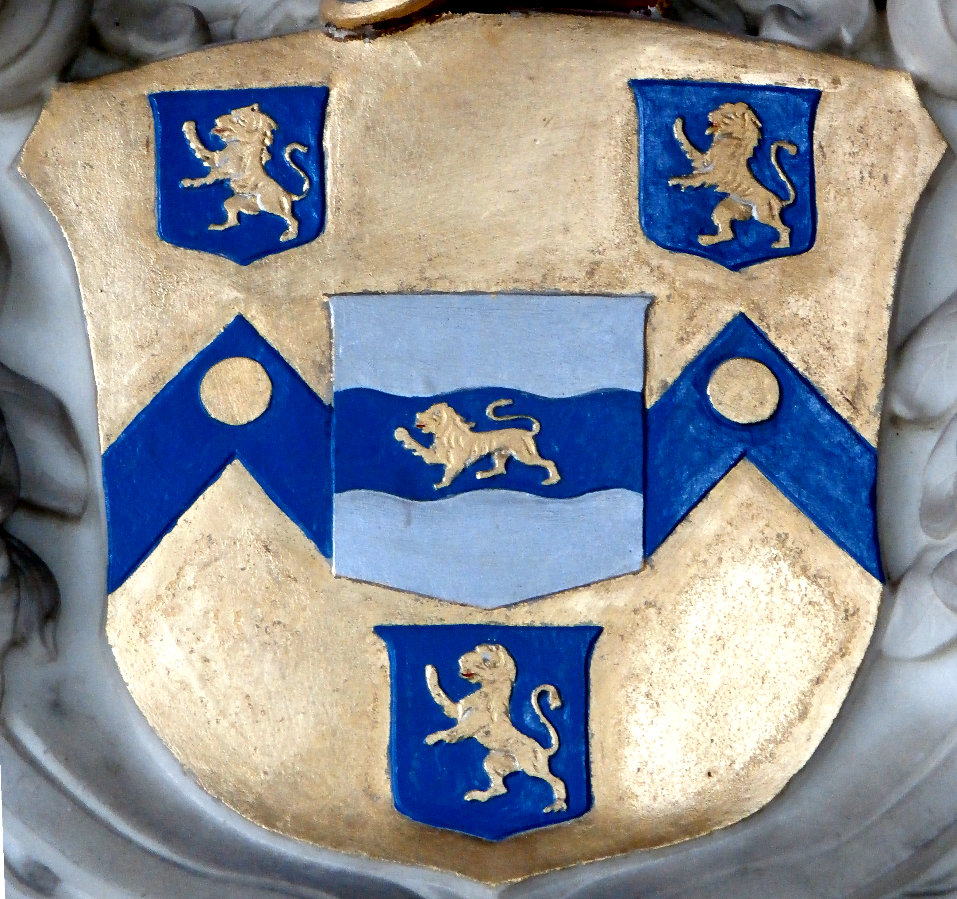 Rolle mural monument, Chittlehampton Church, Devon, on the west wall of the south transept, inscribed as follows: "To the memory of Samuel Rolle, Esq., Dorothy his wife and Samuel Rolle Esq., their son, who died: Feb. 28th 1734 aged 66; Ap. 14th 1735 aged 60; March 1st 1746 aged 43. And whose lives have left to posterity a more expressive memorial than can be perpetuated on the most durable marble". On the monument is shown an escutcheon with the arms of Rolle in the centre of which is an escutcheon of pretence with the arms of Lovering: Argent, on a fesse wavy azure a lion passant or